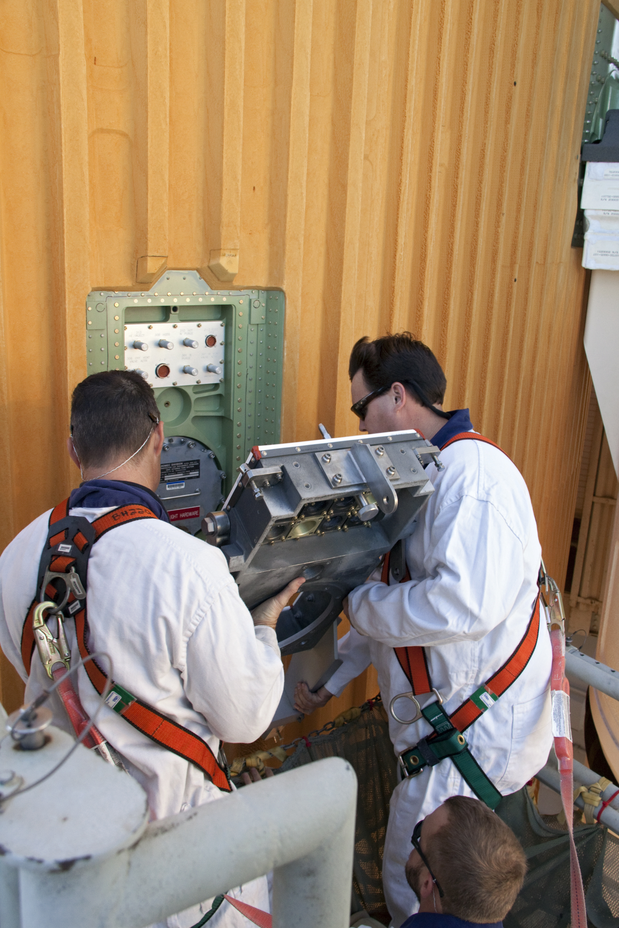 On Launch Pad 39A at NASA's Kennedy Space Center in Florida, workers begin to install a new ground umbilical carrier plate (GUCP) on space shuttle Discovery's external fuel tank. A hydrogen gas leak at that location during tanking for Discovery's STS-133 mission to the International Space Station caused the launch attempt to be scrubbed Nov. 5. The GUCP is the overboard vent to the pad and the flame stack where the excess hydrogen is burned off.